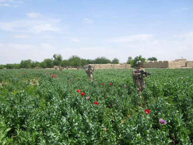 Sangin, Helmand, Afghanistan - Marines with 1st Battalion, 7th Marine Regiment, patrol through a field in Sangin, Afghanistan, April 8, 2012. The battalion retrograded from Sangin, May 5, 2014, and turned over security responsibility of the area to the Afghan National Army. The infantrymen of 1st Bn., 7th Marines, were the final Marines to occupy FOB Sabit Qadam and the surrounding area in Sangin District.